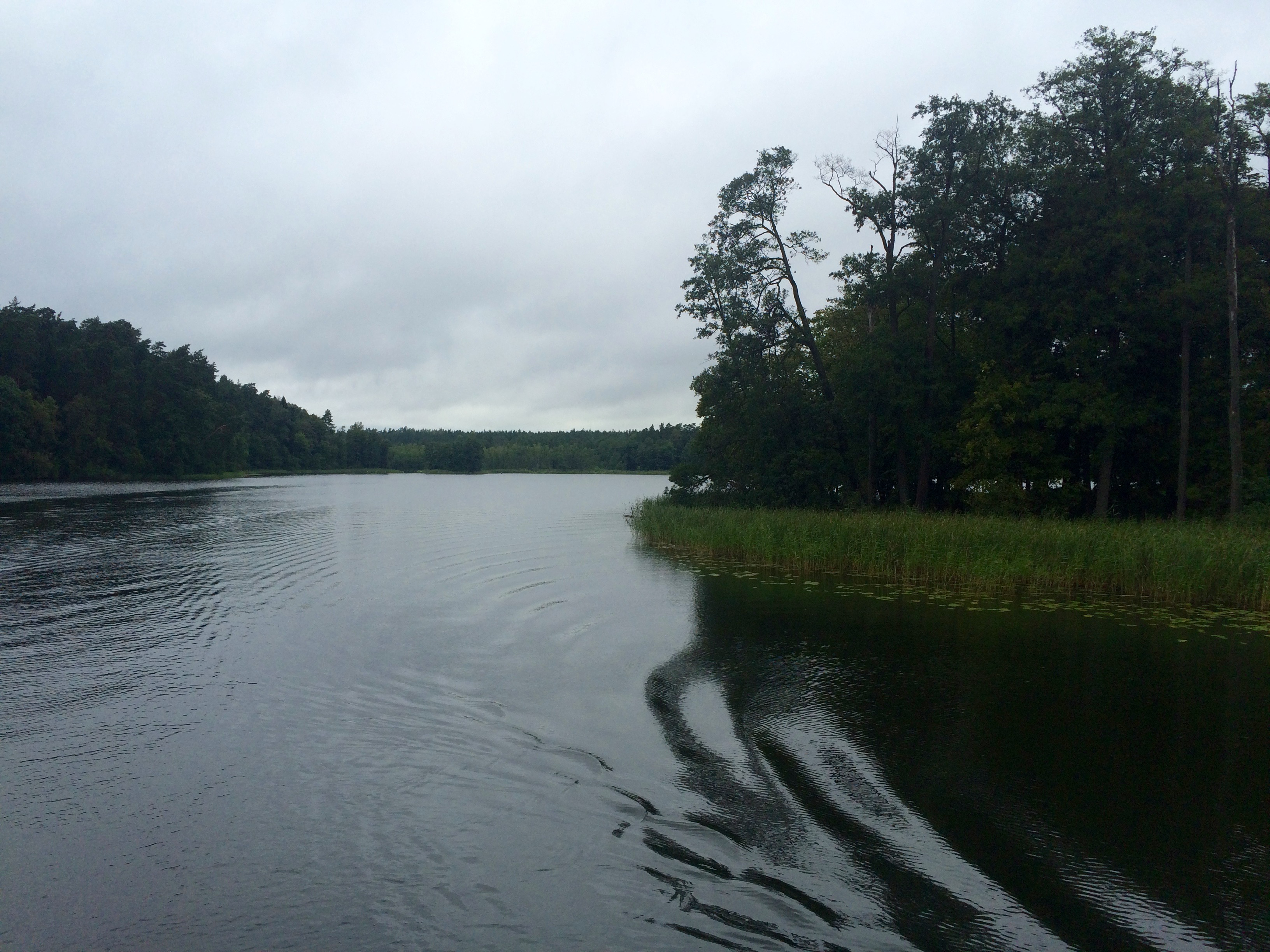 Lake Rospuda Augustowska